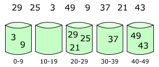 Made by me in Macromedia Flash